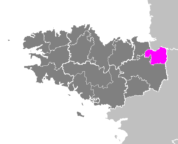 Maps of arrondissements and cantons of France: Arrondissement de Fougères.PNG